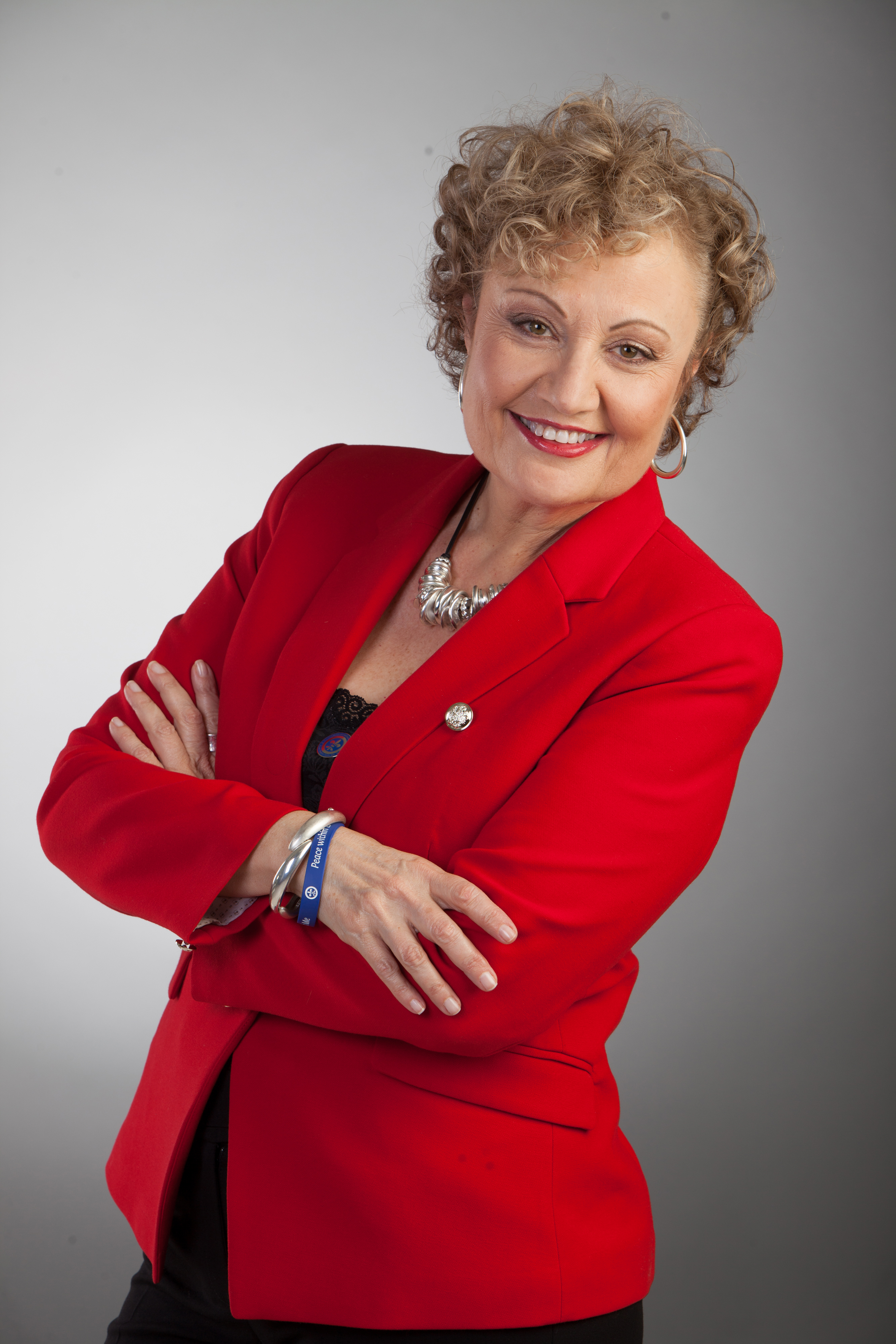 Dame Mabel Katz